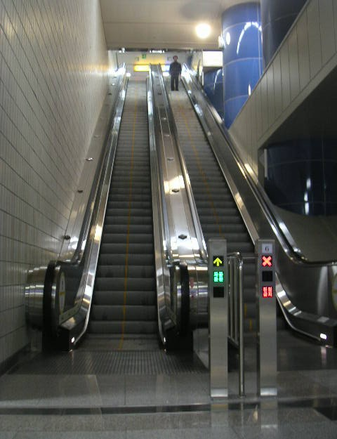 Seoul subway, empty escalators at the station Guryong (Bundang line)